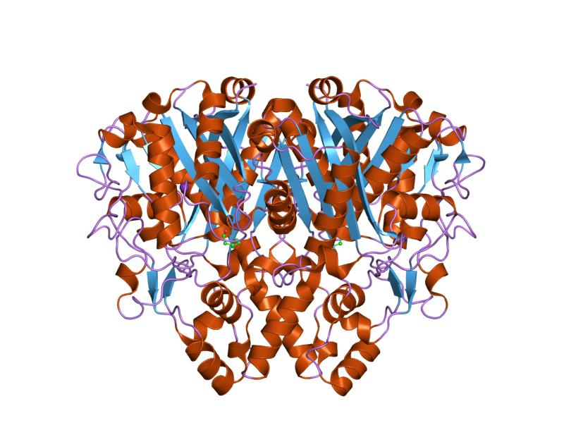 Cartoon representation of the molecular structure of protein registered with 2ix4 code.